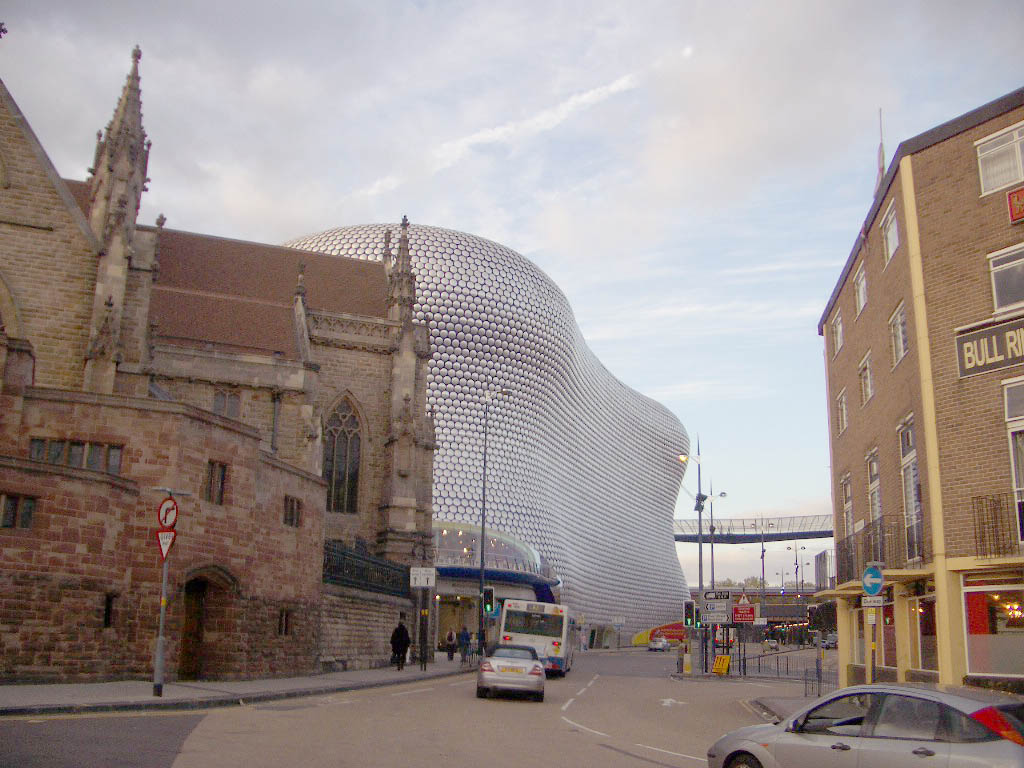 Selfridges and the est end of the Church of England parish church of St Martin, Birmingham.